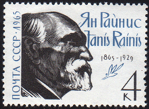 Postage stamp issued by the Soviet Union 1965 to commemorate the birth centennial of the Latvian writer Jānis Rainis.